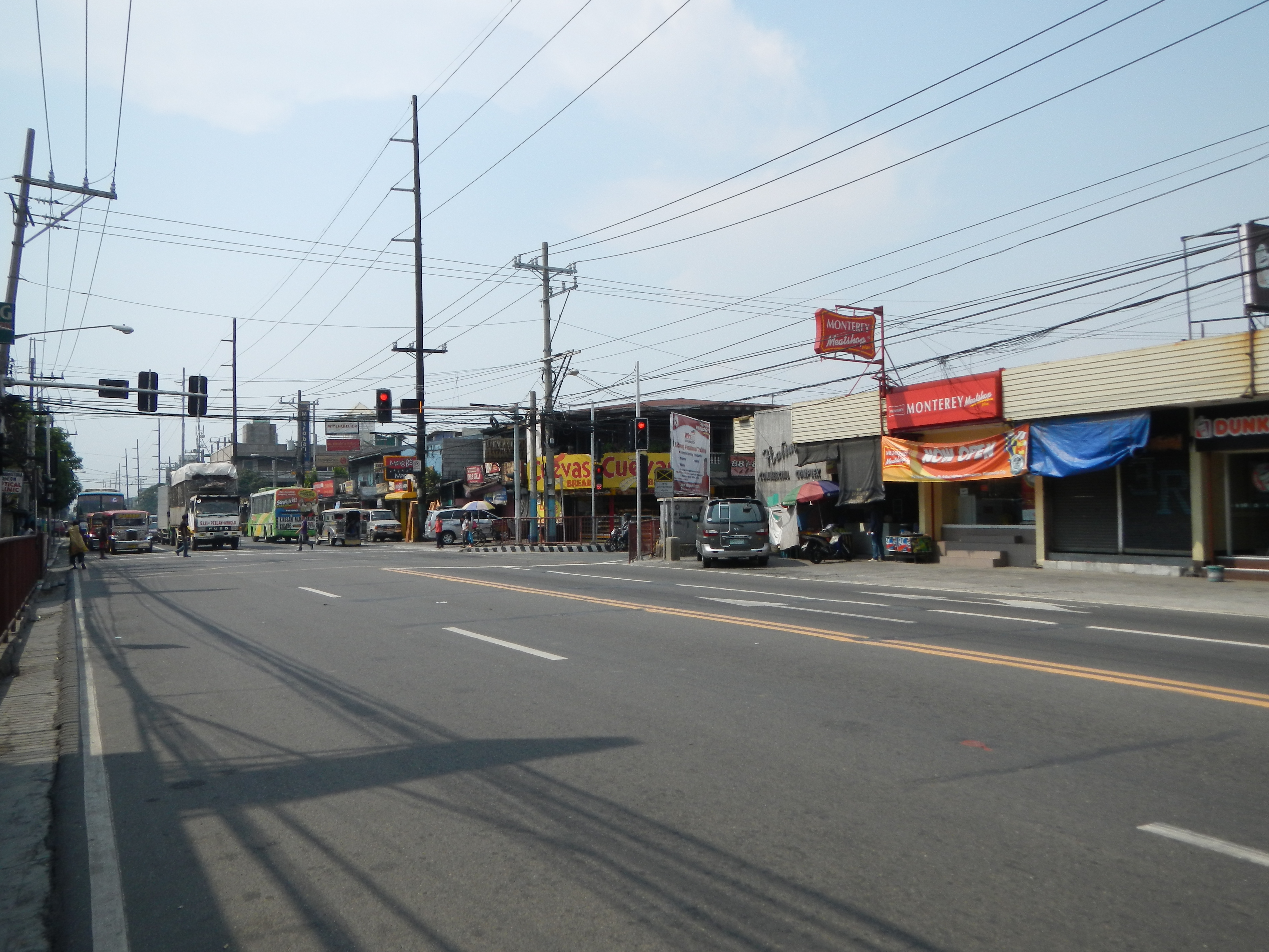 The Landmark Risen Lord Parish (Veinte Reales) Veinte Reales, Valenzuela leading to the next Barangay Dalandanan, Valenzuela in MacArthur Highway, leading to Barangay Malanday which is beside, Barangay Mabolo, Valenzuela City.